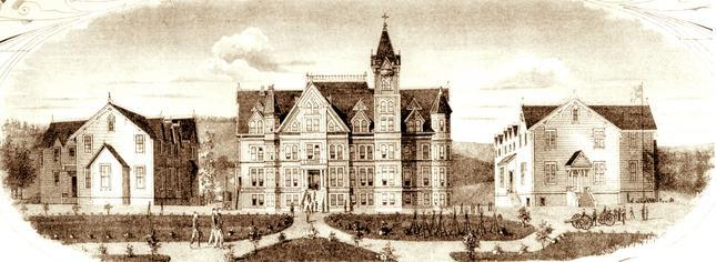 Original caption: "Courtesy of MS&SB CollectionSt. Matthew’s Military School, located in what is today Hillsborough, was at the end of Barroilhet Avenue, on approximately 80 acres. Its previous campus had been next to the Episcopal Church on Baldwin Avenue in San Mateo."